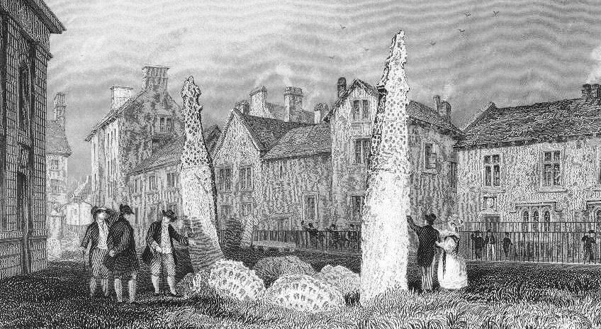 The Giant's Grave in the churchyard at Penrith, Cumbria, England. Circa 1835.